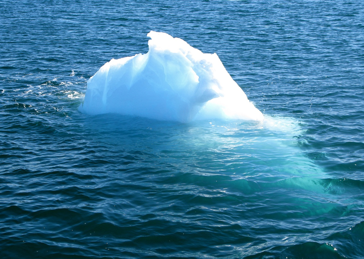 Growler (Antarctic)